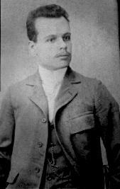 Image of Puerto Rican revolutionary José Maldonado Román "Aguila Blanca" taken in 1899 when he was 25 years old.. Maldonado Román died in 1932 and this image is pre-1923, therefore copyright laws do not apply Source "Aguila"; by: Reynaldo Marcos Padua; Publisher: Ediciones Huracan; 1ST edition (January 2008); ISBN-10: 1932913351; ISBN-13: 978-1932913354